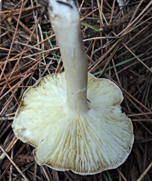 Tricholoma scalpturatum (Fr.) Quél. Image location: Walsingham, Ontario, Canada Recognized by sight For more information about this, see the observation page at Mushroom Observer.